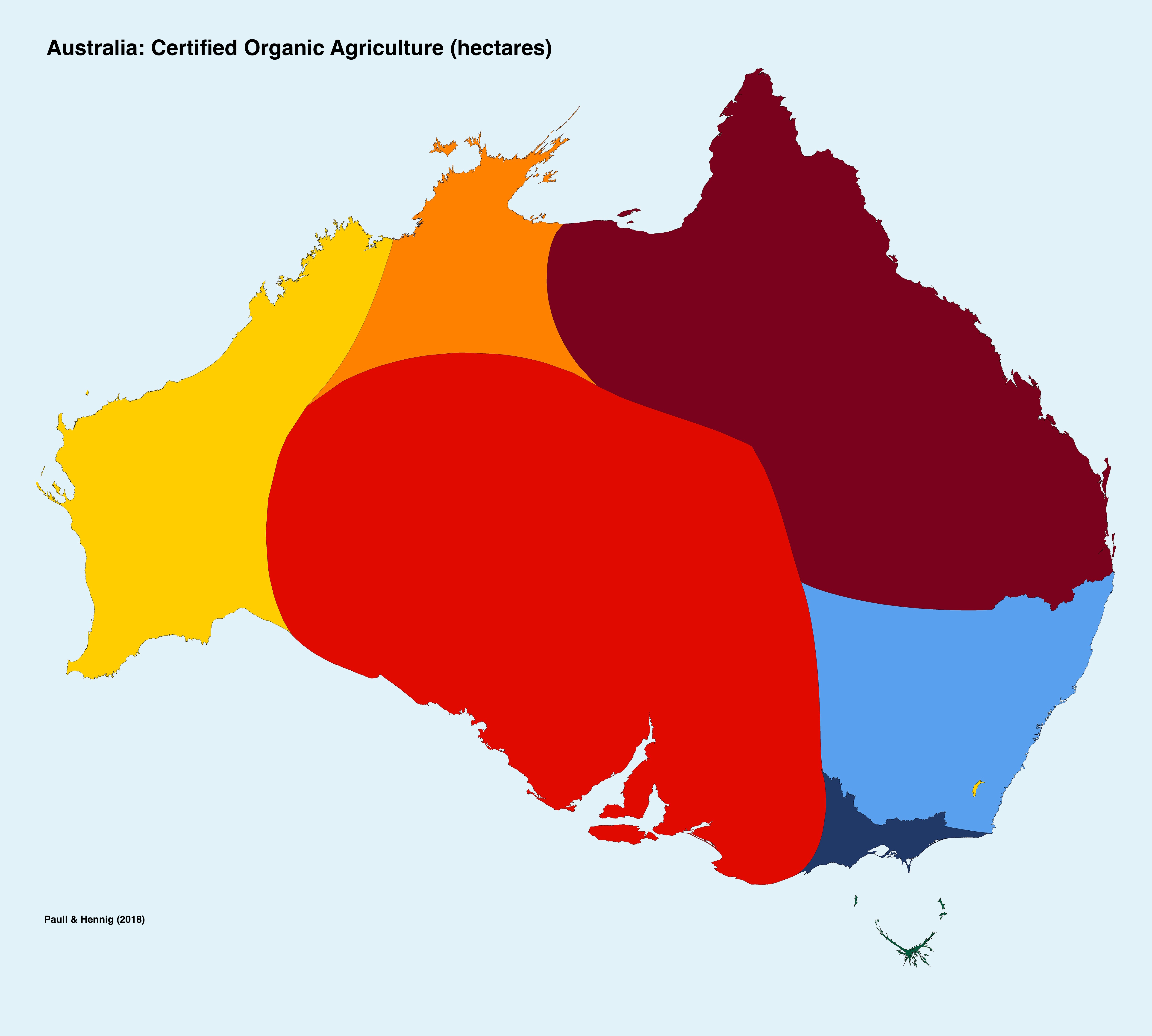 A density-equalising map of organic agriculture in Australia based on certified organic hectares for 6 states and 2 territories. Citation: Paull, J., & Hennig, B. (2018). Maps of Organic Agriculture in Australia. Journal of Organics, 5(1), 29-3. Full paper at